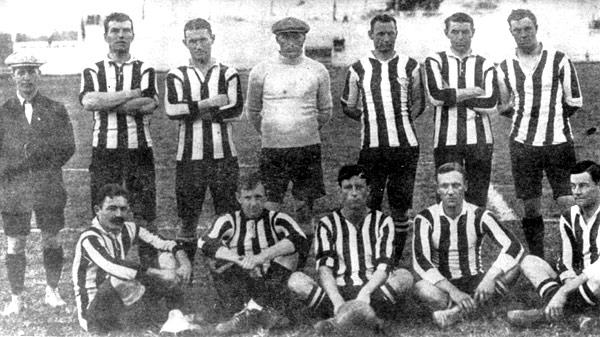 Alumni Athletic Club of Argentina, in 1910. The players are: (from left to right), standing: (Referee), Patricio Browne, Alfredo Brown, George Scholefield, Jorge Brown, Arturo Jacobs, Juan D. Brown. Seated: Guillermo Hardie, Ernesto Brown, Arnoldo Watson Hutton, Gottlob Weiss, Juan Lawrie.